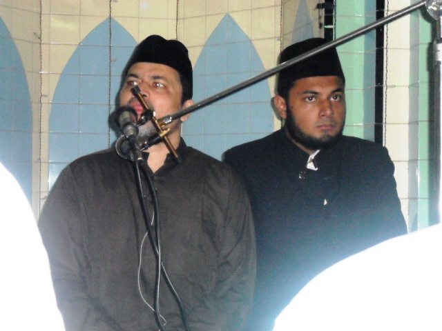 Masjed e Mufti - Azam